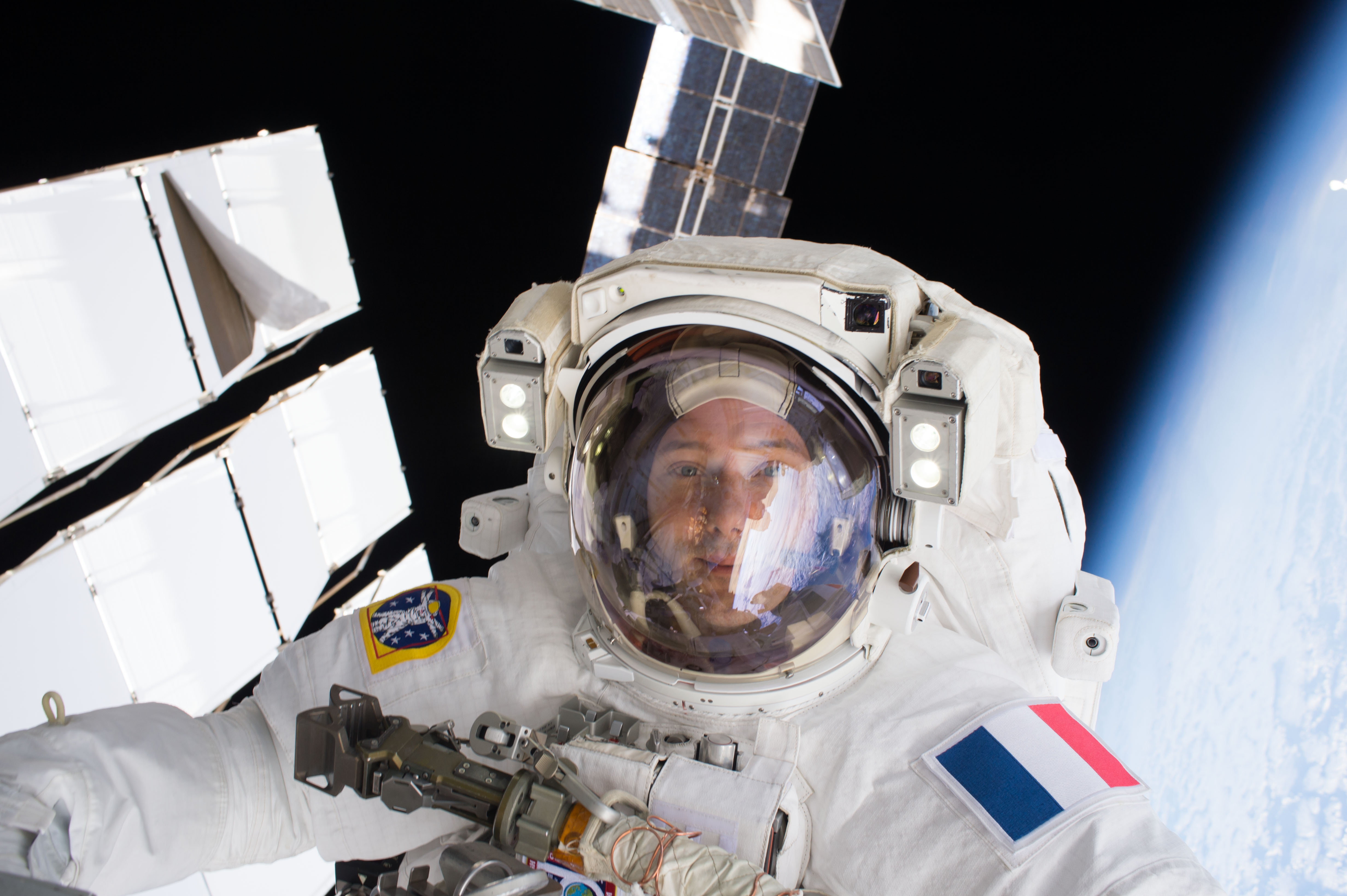 ESA (European Space Agency) astronaut Thomas Pesquet is photographed during a spacewalk in January 2017. During the nearly six hour spacewalk, the two astronauts successfully installed three new adapter plates and hooked up electrical connections for three of the six new lithium-ion batteries on the International Space Station. Astronauts were also able to accomplish several get-ahead tasks including stowing padded shields from Node 3 outside of the station to make room inside the airlock and taking photos to document hardware for future spacewalks.